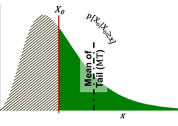 Graphics for re-edit and extension of Wikipedia page "Datar–Mathews method for real option valuation"